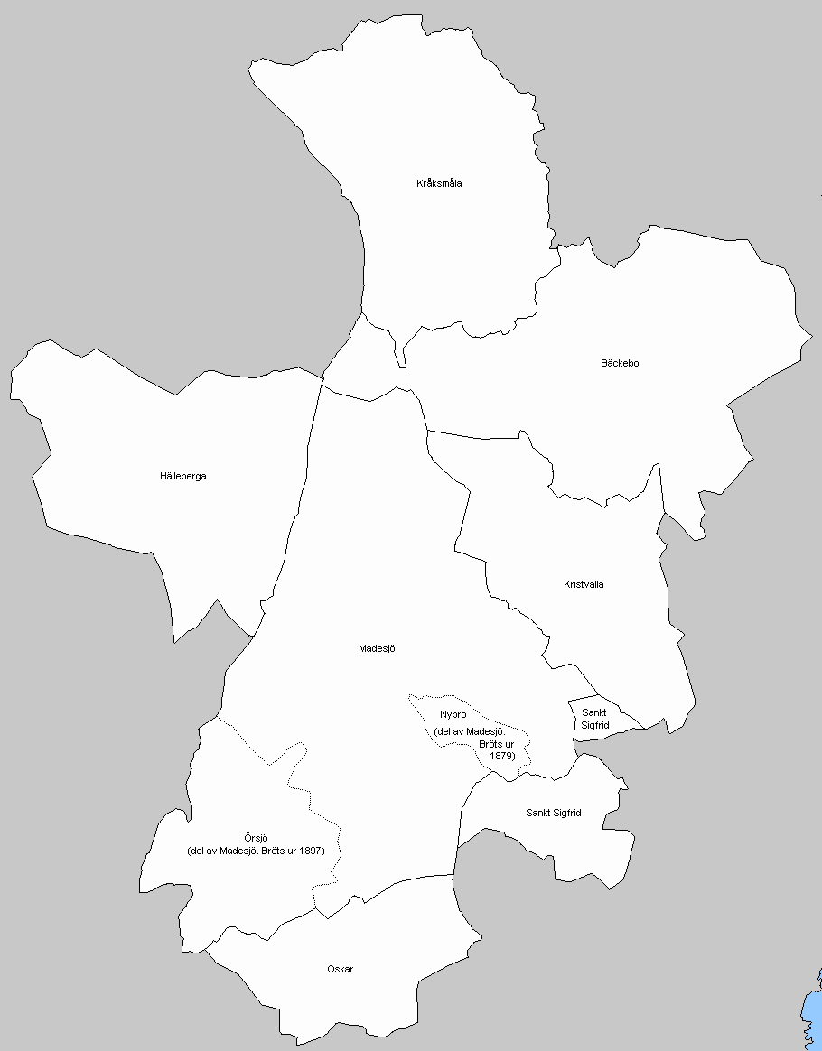 Parishes in Nybro municipality